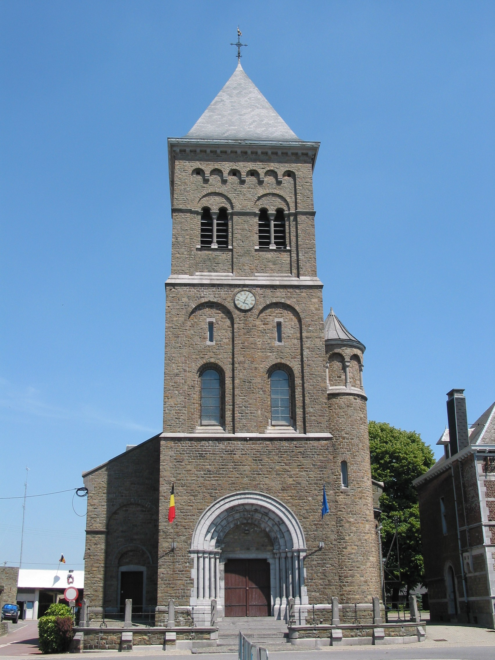 Battice (Belgium), the St. Vincent de de Paul church.